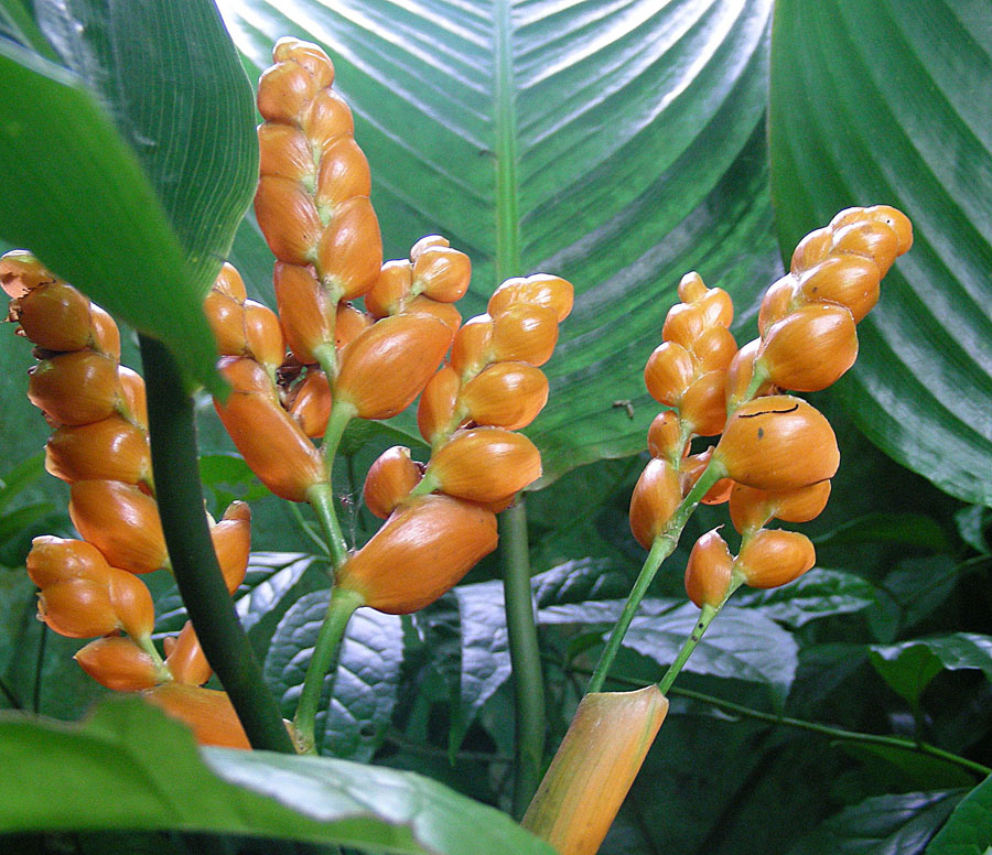 Also known as Bajao in its range from Costa Rica to Venezuela. Botanical Gardens of Bogota. In context at